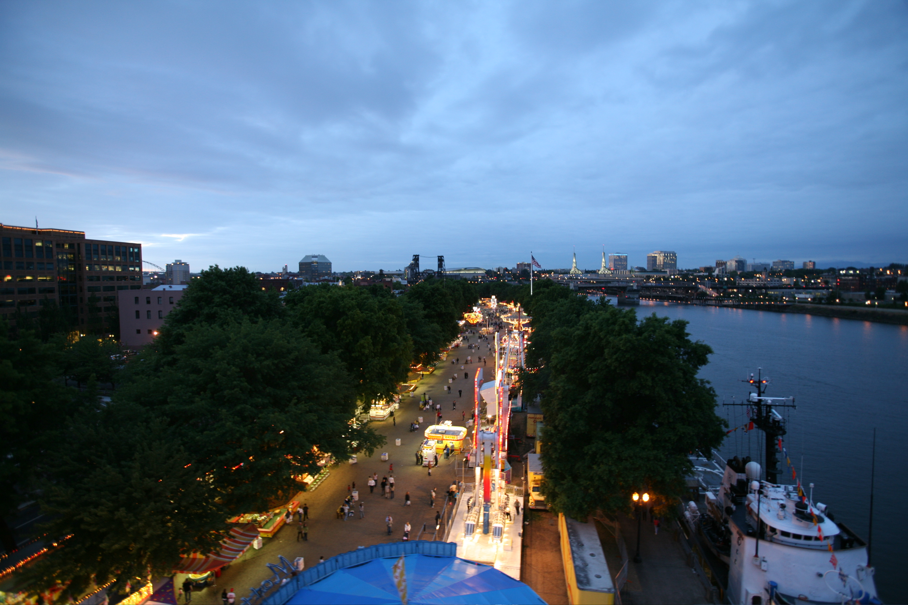 Waterfront Village in Gov. Tom McCall Waterfront Park at the 2007 Portland Rose Festival. The Willamette River is at right.